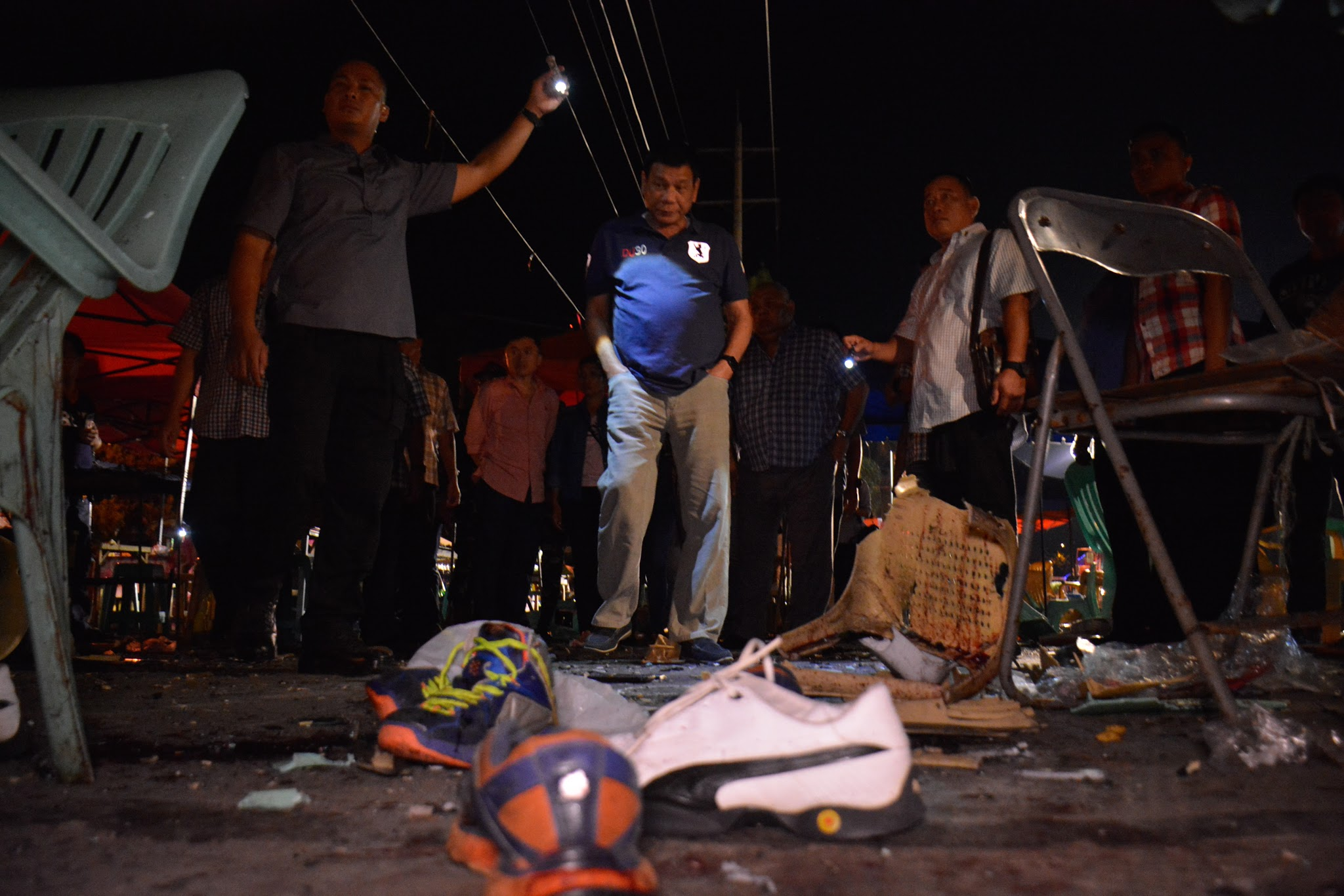 President Rodrigo Duterte visits the blast site that left 14 people dead and 60 injured along Roxas night market in Davao City on September 3.